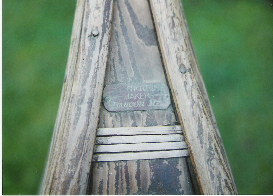 Metal nameplate on a Gerrish canoe